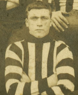 Photograph of Percy Ogden in 1905